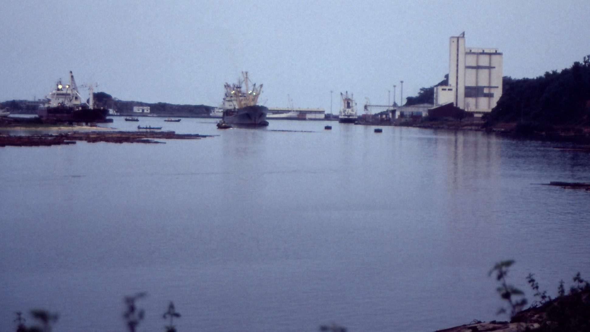 Port of San Pedro, Ivory Coast, January 1990.